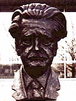 Hugh MacDiarmid, Scottish poet. Herm at South Gyle